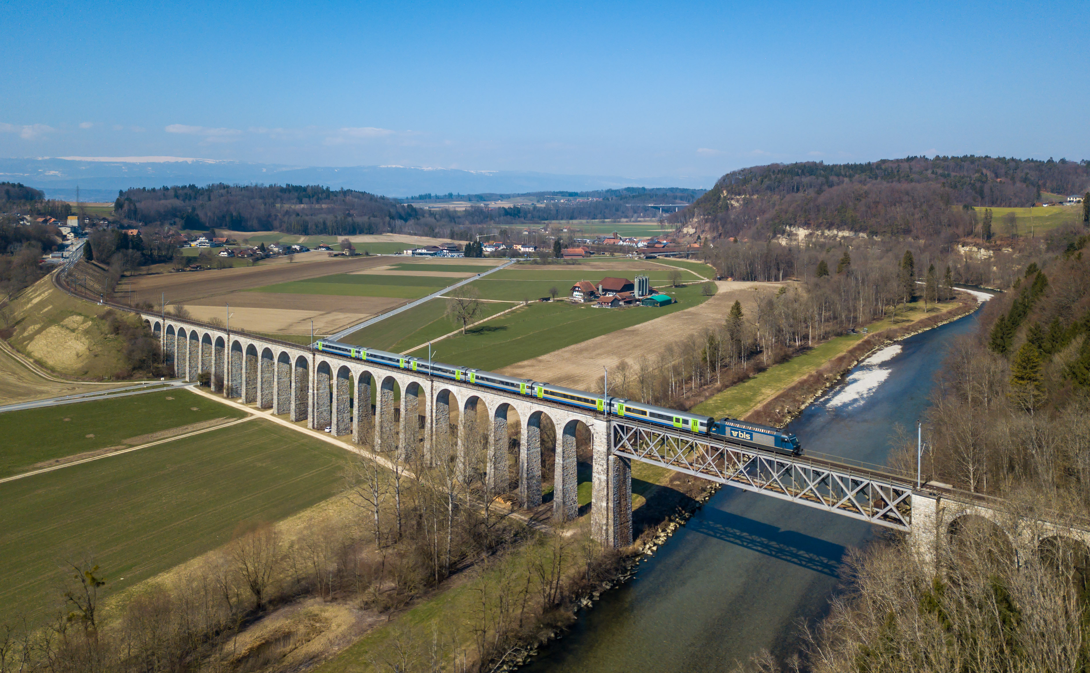 A BLS Re 465 with a RegioExpress from La Chaux-de-Fonds to Bern crosses the Saane viaduct near Gümmenen, Switzerland. Pictured with a drone (DJI Mavic Pro).